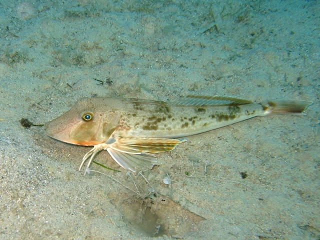 Chelidonichthys lucerna photographed in Cres, Croatia.